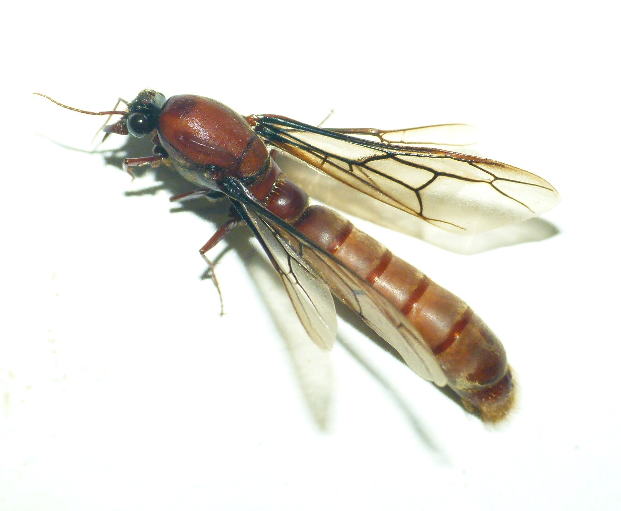 Reproductive of a Dorylus sp., Formicidae, Hymenoptera. Castle Rock, Uttara Kanara, Karnataka.